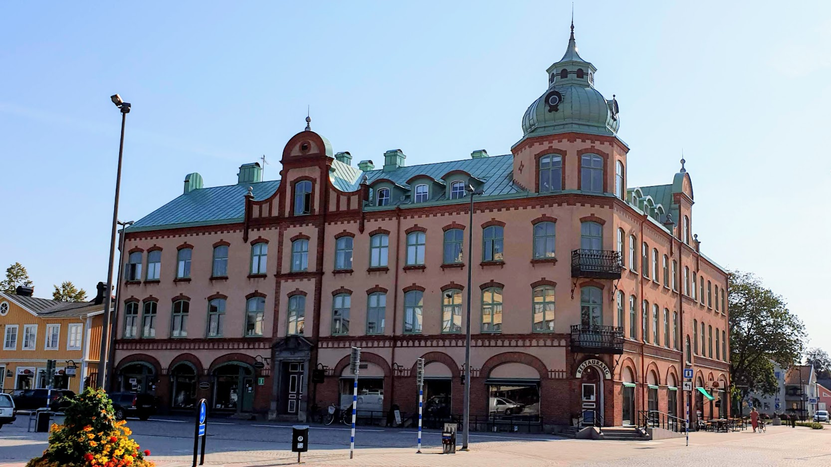 Tellushuset (The Tellus House), Ljungby, Sweden, built 1905-1906, with Storgatan, Föreningsgatan, Stationsgatan, and Stora Torg in the foreground. The picture taken after some major renovations of the plaza and surrounding area.